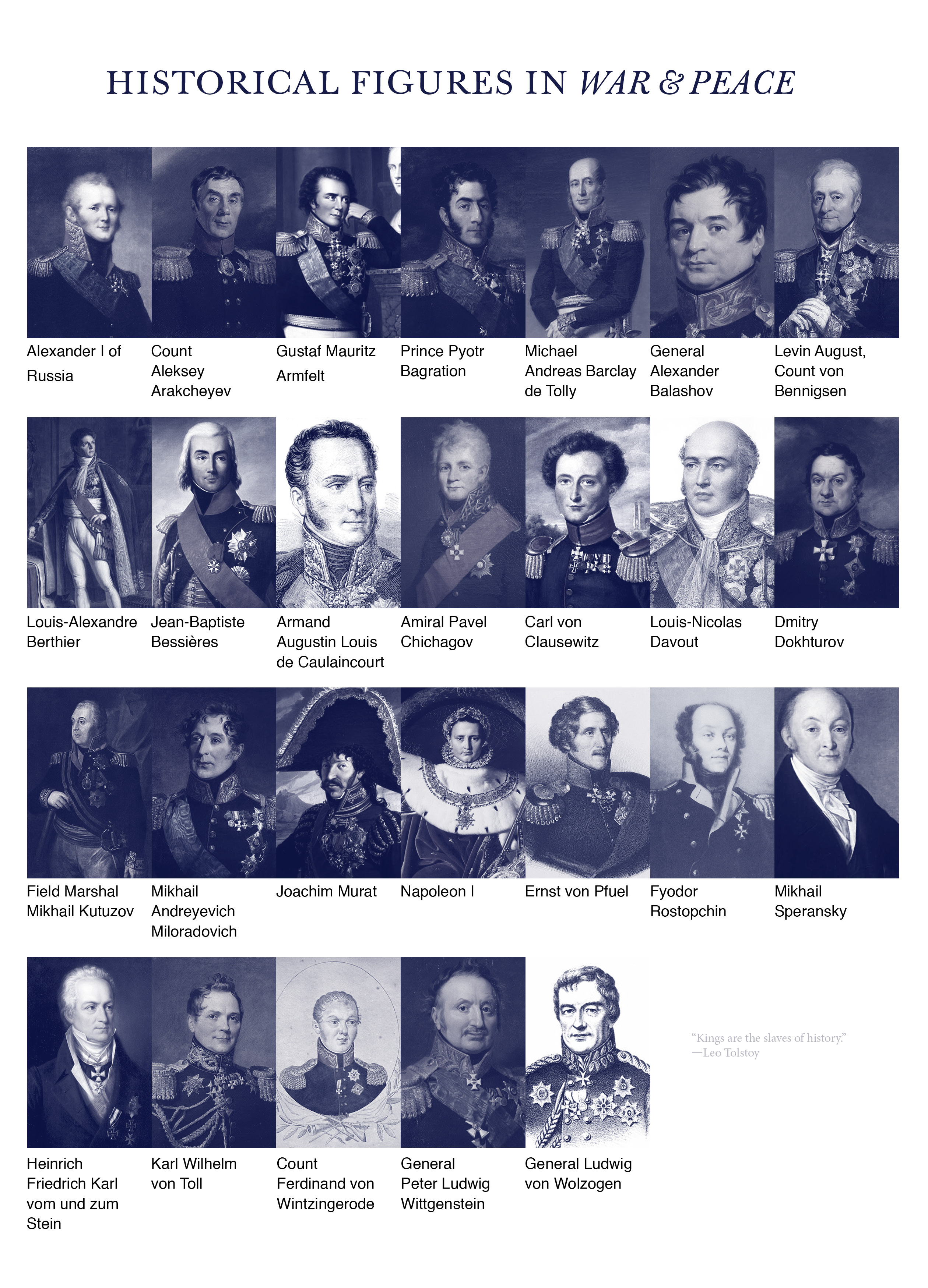 Portraits of historical figures in War & Peace